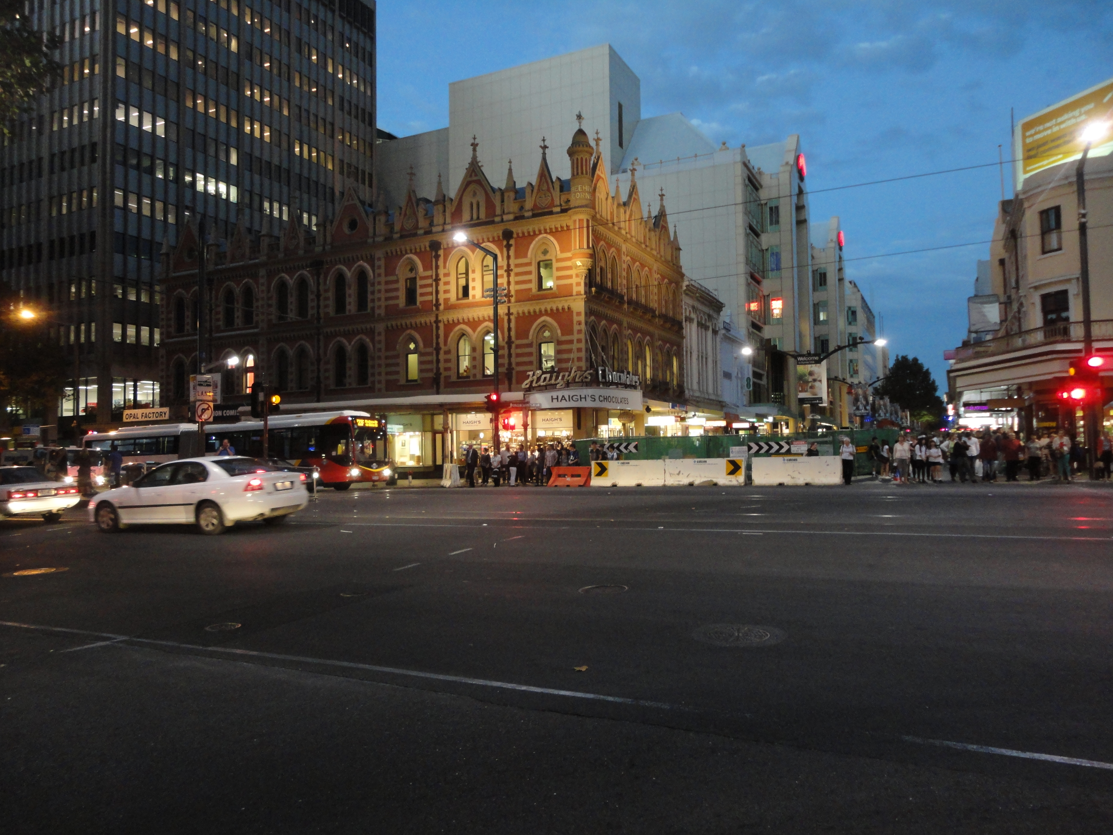 Rundle Mall closed for construction